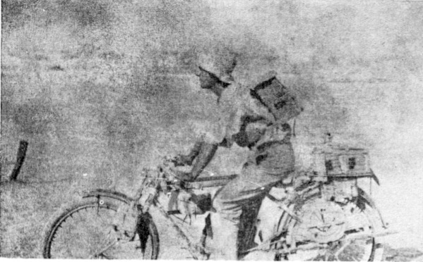 Australian dispatch rider, Jordan Valley, September 1918